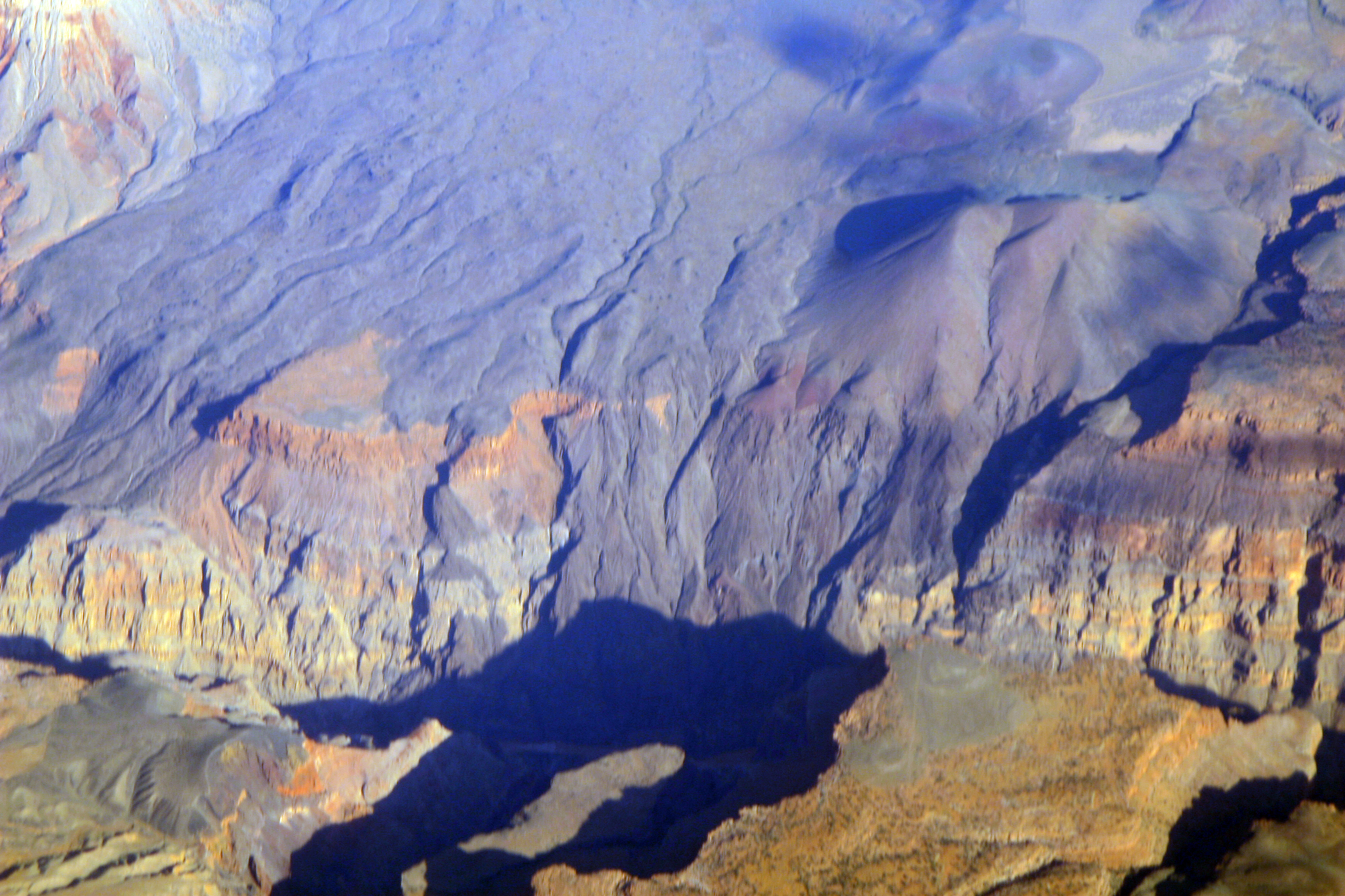 Vulcan's Throne and Lava Falls, where the Uinkaret Volcanic Field Category:lava flow pours into the Grand Canyon, in northern Arizona. Although the volcanic activity here dates from about 73,000 years ago, the Uinkaret volcanic field has been active within the last thousand years.